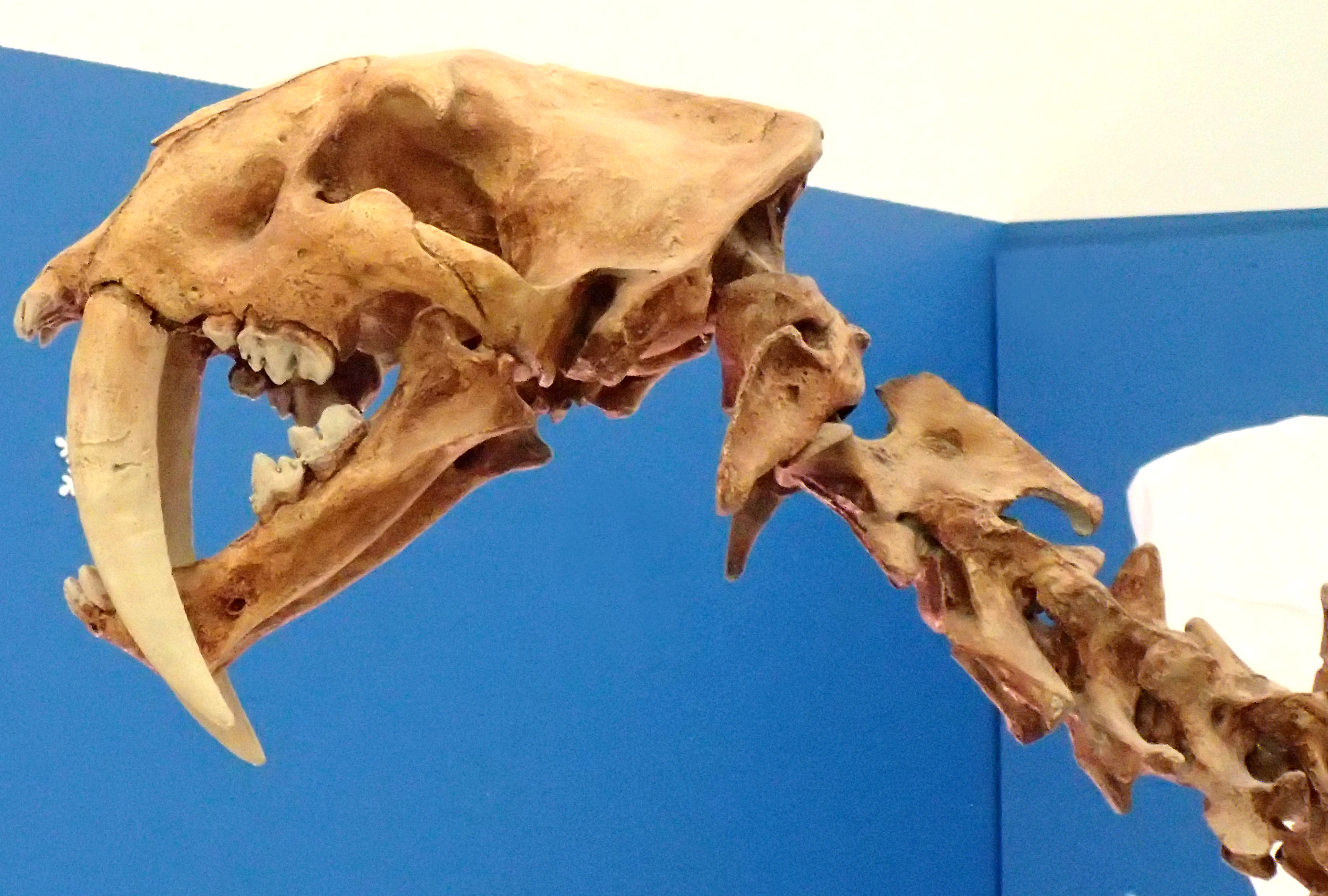 Smilodon fatalis Leidy, 1869 saber-toothed tiger skeleton from the Upper Pleistocene of California, USA (public display, Sternberg Museum of Natural History, Hays, Kansas, USA). This is the famous, fearsome-looking saber-toothed tiger, Smilodon. Several fossil cats are known with hyper-enlarged canine teeth. These fangs helped the cats bring down large prey animals. Smilodon is known from the Late Pliocene and Pleistocene of the Americas. An especially prolific locality for Smilodon fossils is the La Brea Tar Pits of California’s Los Angeles Basin. Classification: Animalia, Vertebrata, Mammalia, Carnivora, Felidae By the way, some will insist that the traditional term "saber-toothed tiger" is incorrect. Common names do not have scientific significance - they never have. I would recommend that people "chill" when it comes to common names. As an example, many do not call starfish "starfish" anymore, the logic being that they are not fish (which is true). Their common name is now frequently "seastars". Well, they aren't stars, either. "Starfish" is fine - no one thinks they are fish.